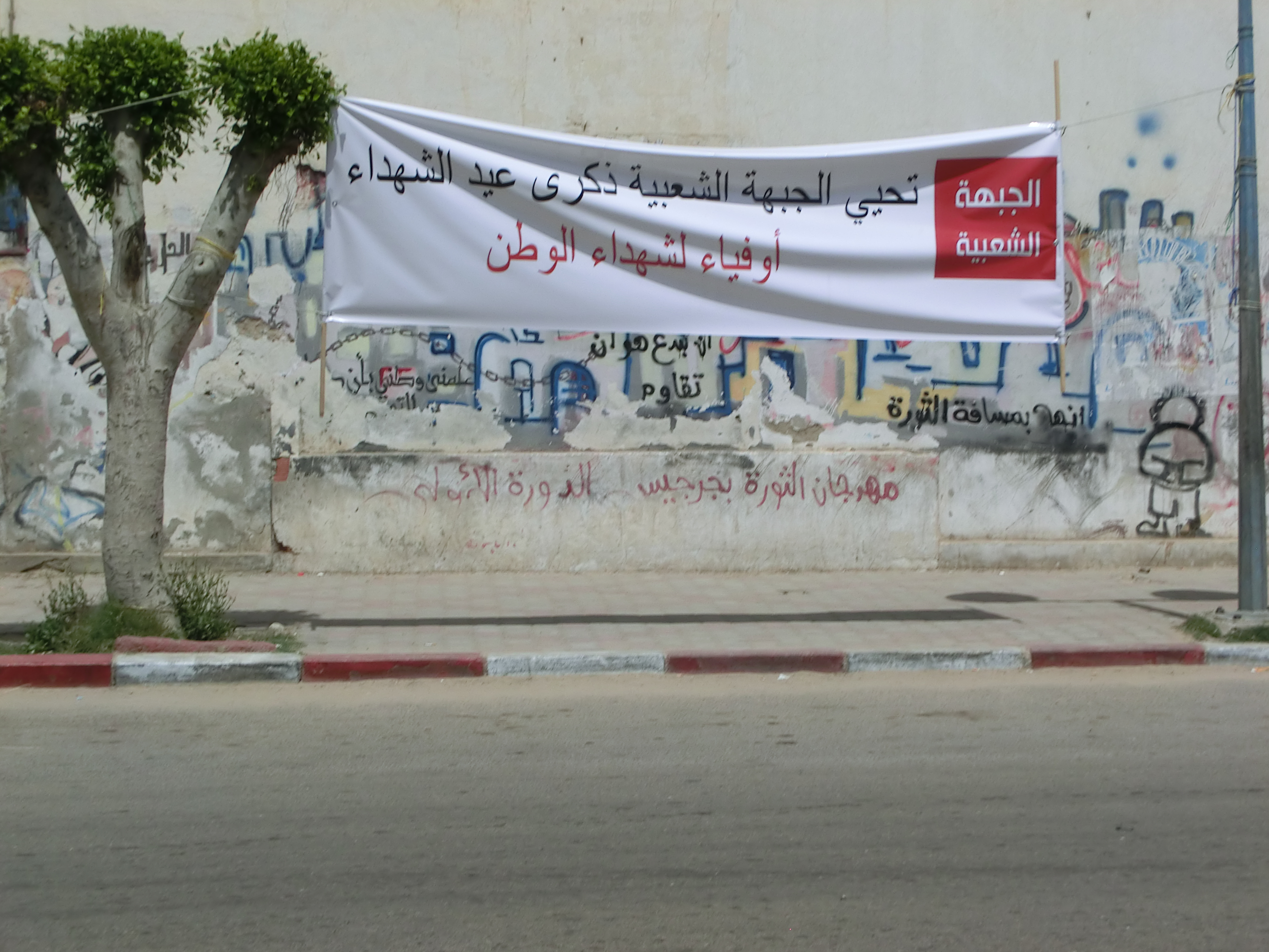 Banner of left-wing People's Front in Zarzis, Tunisia